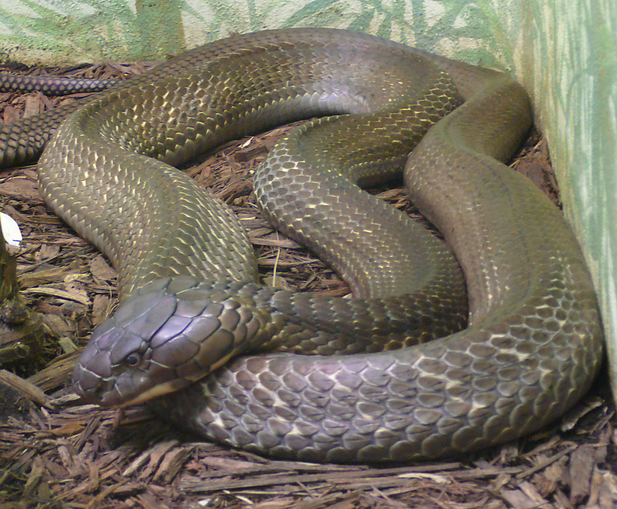 King cobra (Ophiophagus hannah)